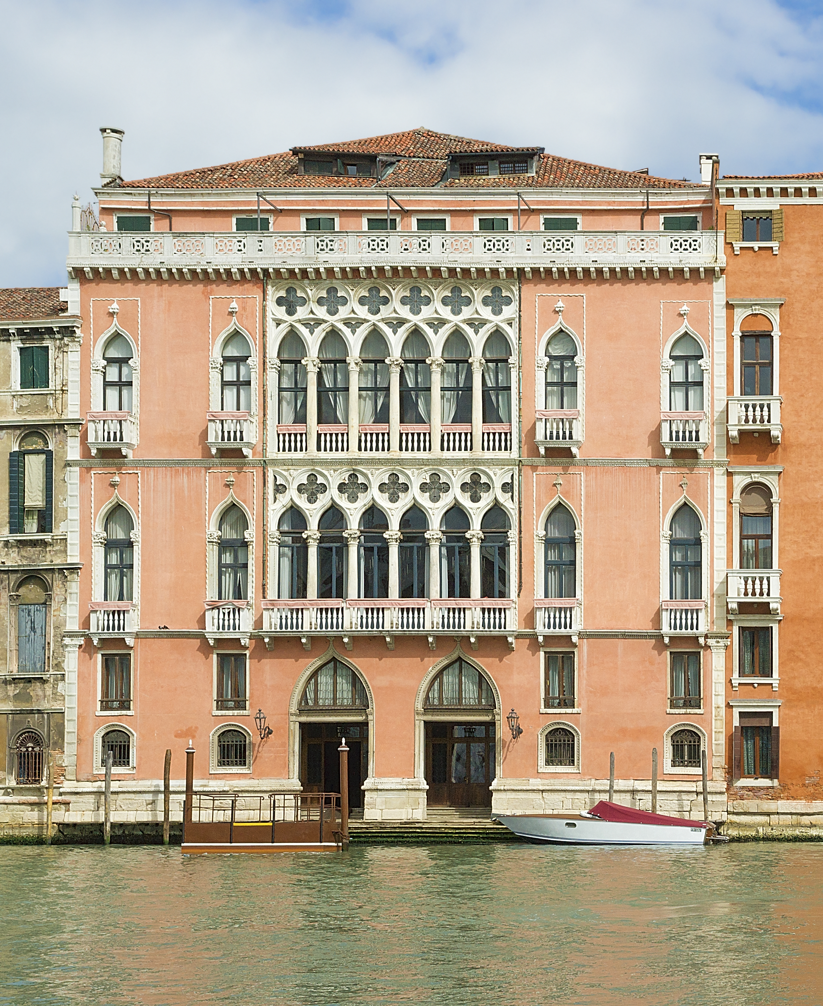 Palazzo Pisani Moretta Venice, facade on Grand Canal.